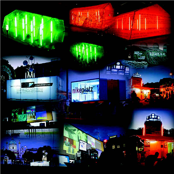 World-Information Org - compilation of pictures from the organization's activities: Public Netbase Basecamp I/II/III 2001-2002, System-77 Civil Counter-Reconnaissance/ Vienna 2004, Nikeplatz/ Vienna 2003, Free Media Camp/ Vienna 2003